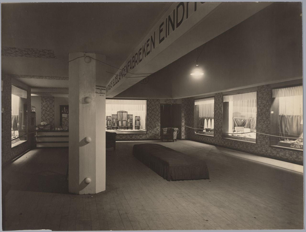 Jaarbeurs tentoonstellingsstand voor Philips, Utrecht. Architect: H.A. van Anrooy. Fotograaf: onbekend. Collectie NAi / TENT_o329 URL van deze afbeelding: Meer foto's uit deze collectie kunt u bekijken in de Collectiedatabase van het NAi. Niet van alle gebouwen en interieurs zijn alle gegevens bekend. Heeft u meer informatie of weet u het adres van een gebouw? Laat dan een reactie achter (als u ingelogd bent bij Flickr) of stuur een mailtje naar: Al deze foto's zijn gemaakt in de eerste helft van de twintigste eeuw. Wij zijn benieuwd hoe deze gebouwen er vandaag de dag uitzien. Heeft u recente foto's van deze gebouwen of locaties, voeg ze dan toe als commentaar. U kunt een eigen Flickr-foto toevoegen door de URL ervan tussen vierkante haken in het commentaarveld te plakken. Als uw foto's een Creative Commons licentie hebben, nemen we ze bovendien graag op in de NAi Collectiedatabase. Philips Trade Fair Booth, Utrecht. Architect: H.A. van Anrooy. Photographer: unknown. NAI Collection / TENT_o329 Persistent URL: For more photographs from this collection, please visit the NAI Collection Database You can help us gain more knowledge on the content of our collection by adding a comment with information. If you do not wish to log in, you can write an e-mail to: All these pictures are taken in the first half of the twentieth century. We are curious to learn how these buildings look like today. If you have recently taken photographs of these buildings or locations, please add them to your comment. If you'd like to include a Flickr photo, simply copy and paste its URL between square brackets in the commentary-field. Photos with a Creative Commons licence may be used to illustrate the NAi Collection Database.